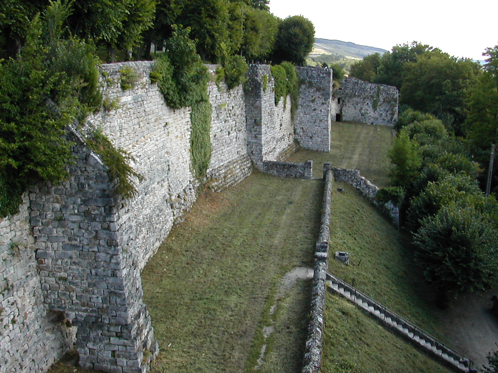 Fortifications of the castle of Château-Thierry. Taken at Château-Thierry, France, from one of the towers, with a Nikon Coolpix 775.